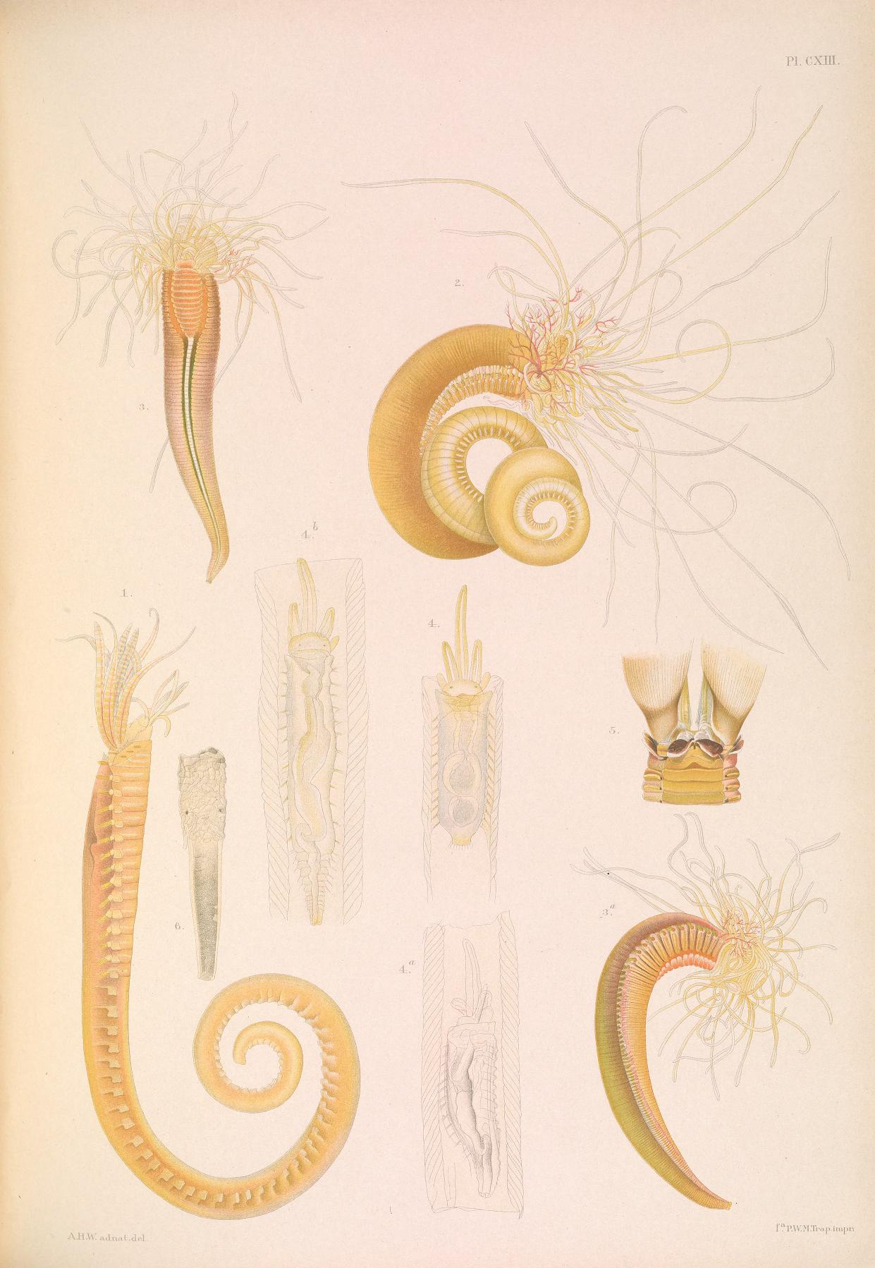 A monograph of the British marine annelids 1922 Plate CXIII Plate text 1 Melinna palmata Grube, 1870 Ampharetidae 2 Amphitrite scylla (Savigny, 1822) Terebellidae 3 Leprea lapidaria (Linnaeus, 1767) Terebellidae 4 Terebella sp. (immature pelagic) Terebellidae 5 Bispira volutacornis (Montagu, 1804) Sabellidae 6 Lagis koreni Malmgren, 1866 (sand tube) Pectinariidae